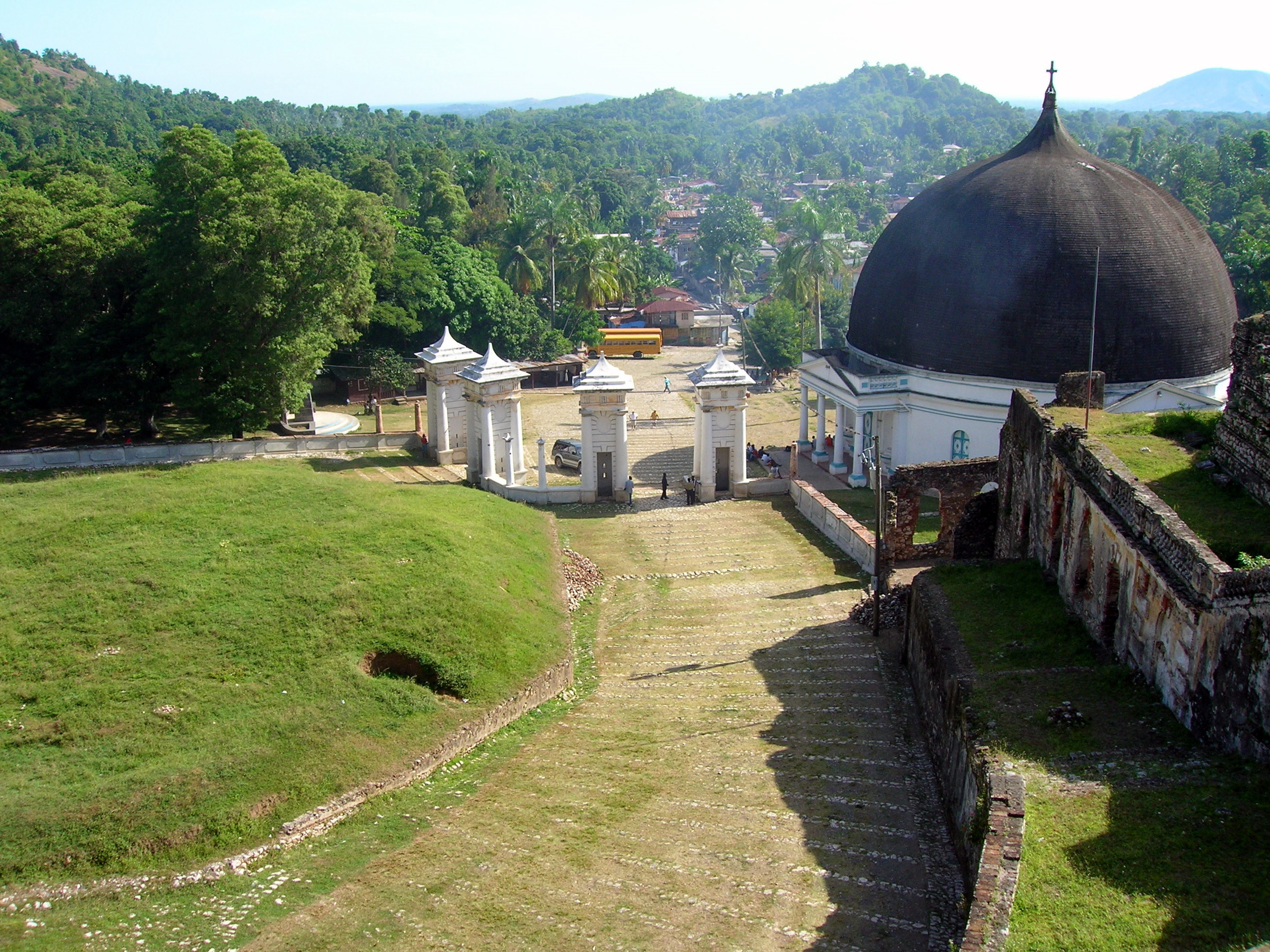 The entrance of the Sans-Souci palace, in Milot, Haiti ; a church is visible on the right.